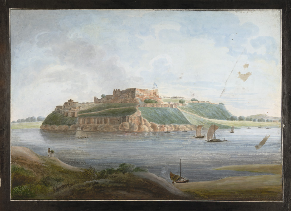 Water colour painting of the North view of the fort of Chunargarh on the Ganges from across the river. It is in the Murshidabad style and on its back is inscribed "From a Painting by Daniels".